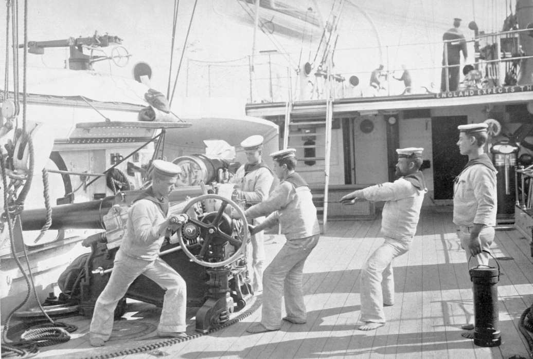 Photograph of seamen training with a starboard broadside 5-inch gun, on board British corvette HMS Calliope (1884). In the background is a 6-inch gun. At top left is a multi-barrelled Gardner handcranked machine-gun. The man at right holds a case which contains a powder cartridge ready for loading.